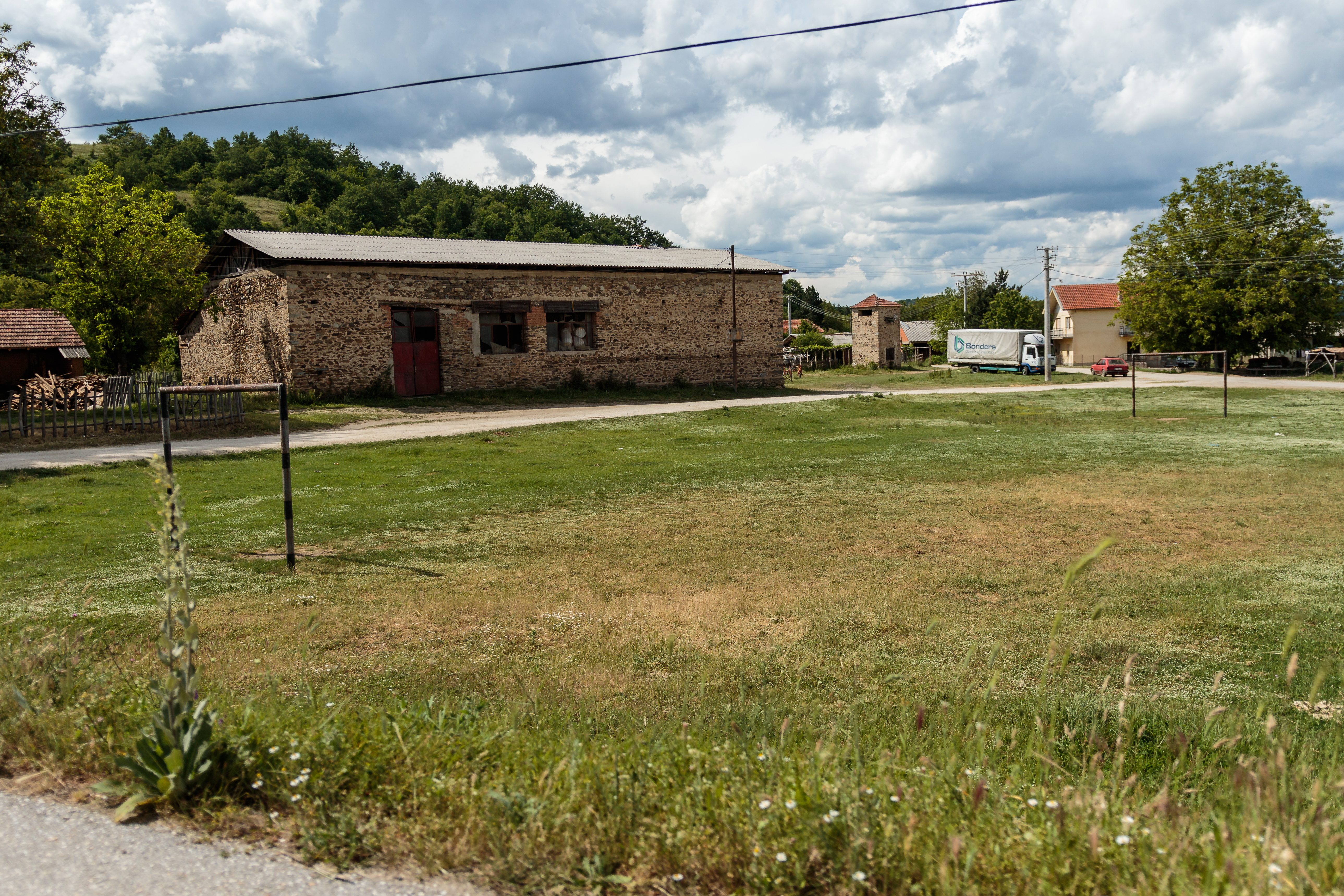 Center of the village Zagoriče